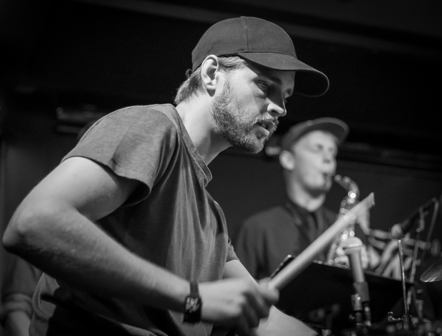 Henrik Lødøen performs with Megalodon Collective at the stage of Herr Nilsen. The concert was part of the Oslo Jazz Festival in Norway and took place on 16. August 2016. Lineup: Karl «Kalle» Nyberg (saxophone) Martin Myhre Olsen (saxophone) Petter Kraft (saxophone) Karl Bjorå (guitar) Aaron Mandelmann (bass guitar) Andreas Winther (drums) Henrik Lødøen (drums)